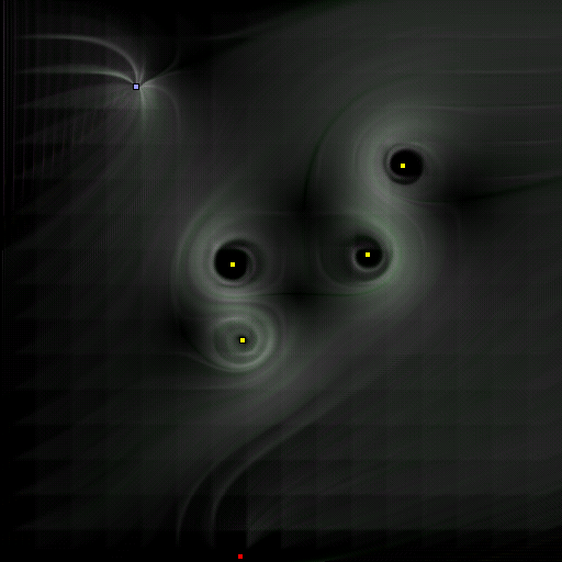 Image-based flow visualization of a vector field defined by a number of vortices and sinks. A background grid image is used as a source of "paint" that is advected by the flow field. Generated using Jarke J. van Wijk's image based flow tool